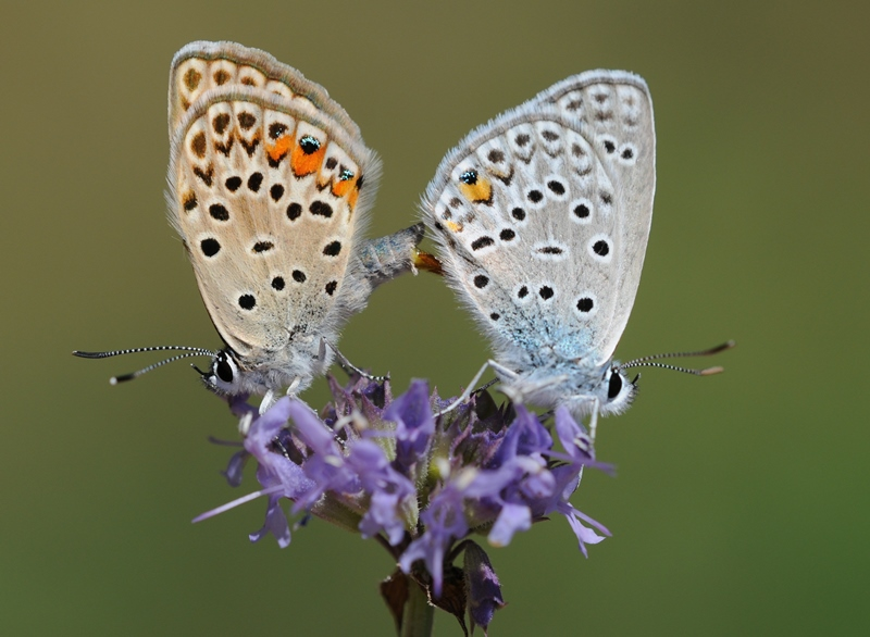 Wing upperside view of a couple of "Large Jevel Blue " (Albulina loewii) butterfly. Dallikavak Pass surroundings, Erzurum - Turkey. 2020 m. /Türkçe: Bir "Çokgözlü Gümüşmavi" (Albulina loewii) kelebeği çifti kanat altı görünümü. Dallıkavak Geçidi civarı, Erzurum, Türkiye. 2020 m.